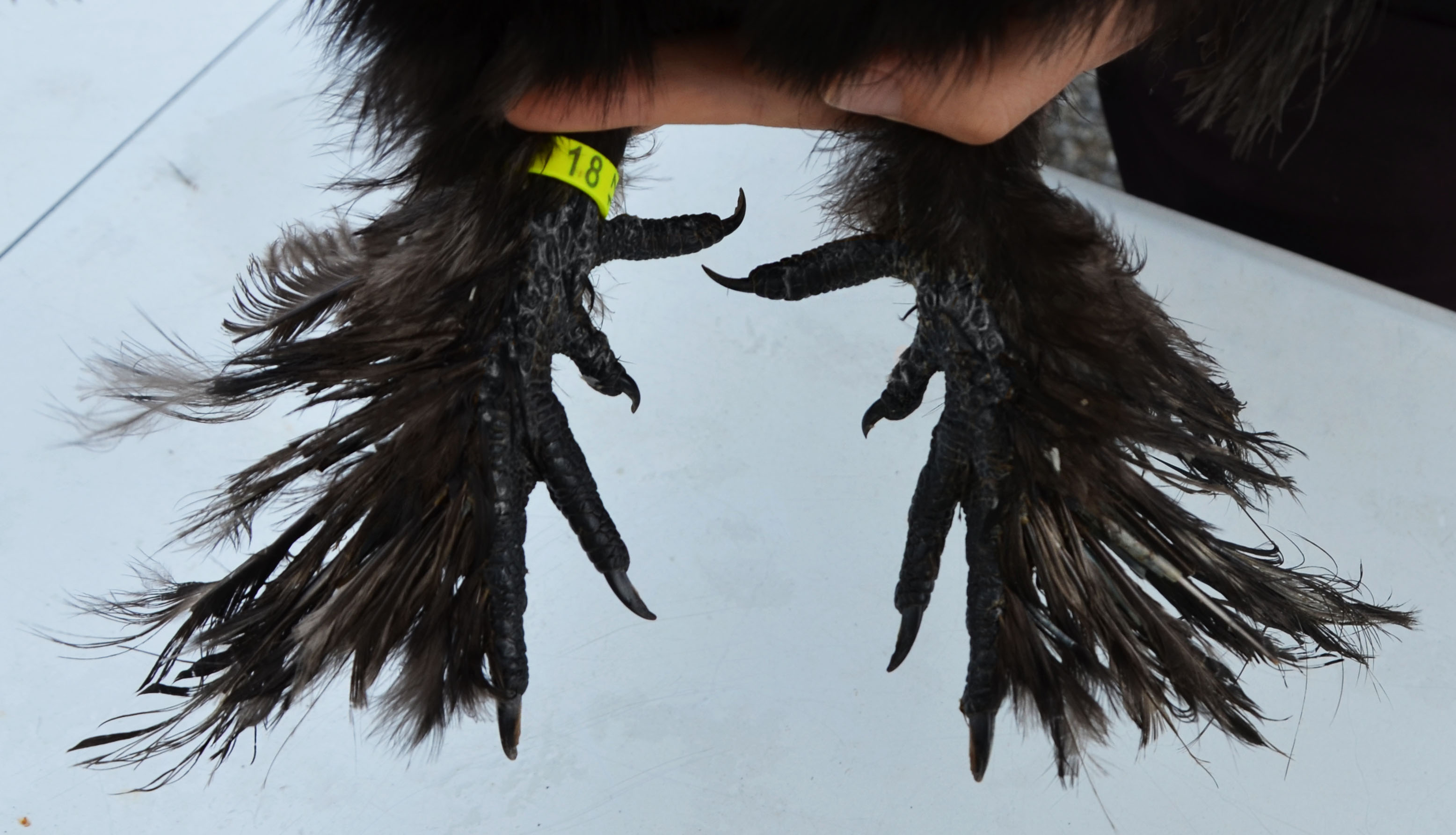 Silkie feet. The spacing between the fourth and fifth fingers is very good.